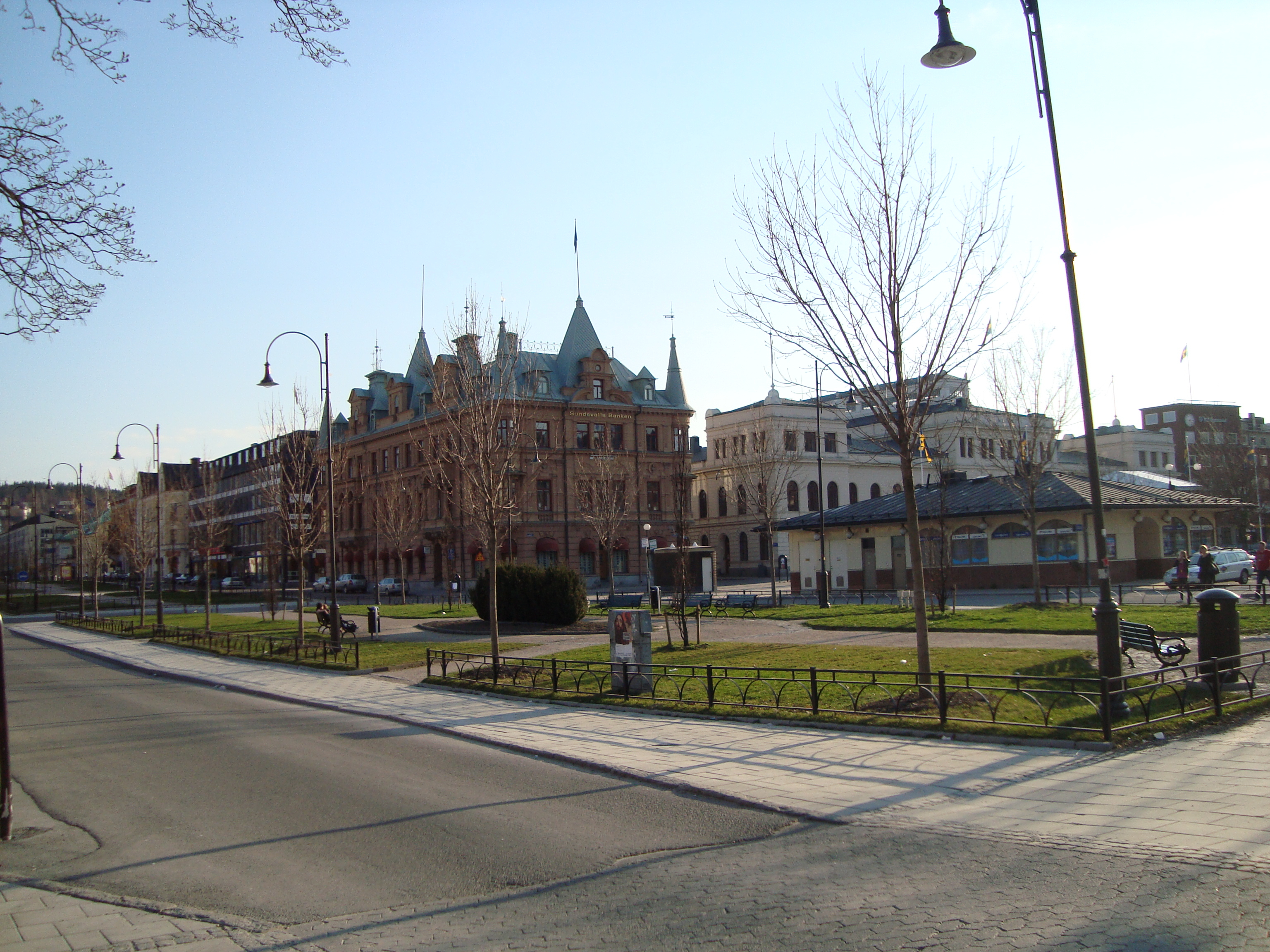 part of Sundsvall city, Sweden